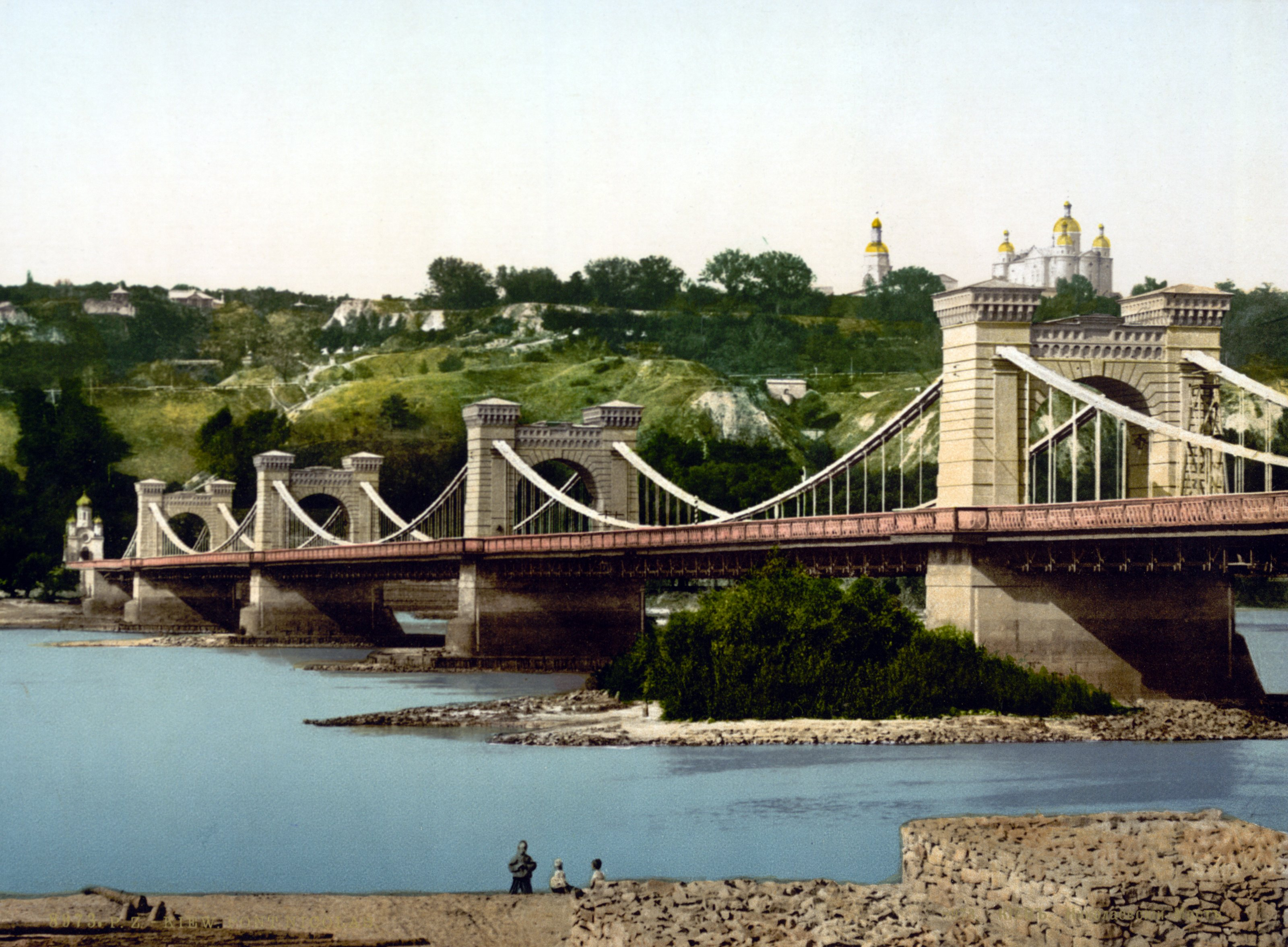 Nicholas Chain Bridge in Kiev, circa 1890-1900. Print no. "8973"